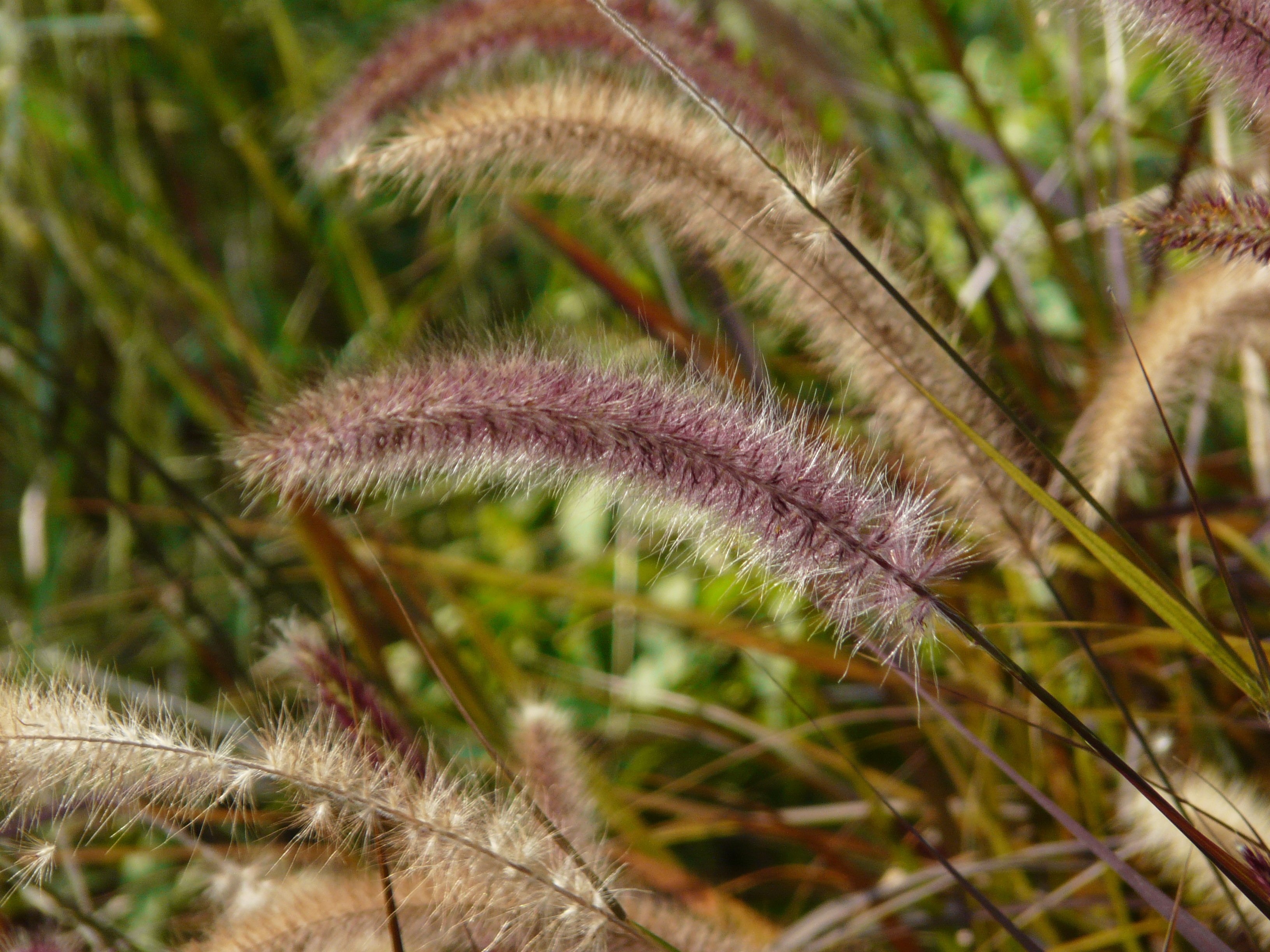 Poaceae (formerly and, also known as Gramineae; grass family) » Pennisetum setaceum pen-ih-SEE-tum -- referring to a feather se-TAY-see-um -- meaning, bristly commonly known as: African fountain grass, fountain grass, purple fountain grass, tender fountain grass Native to: North Africa References: Flowers of India • Dave's Garden